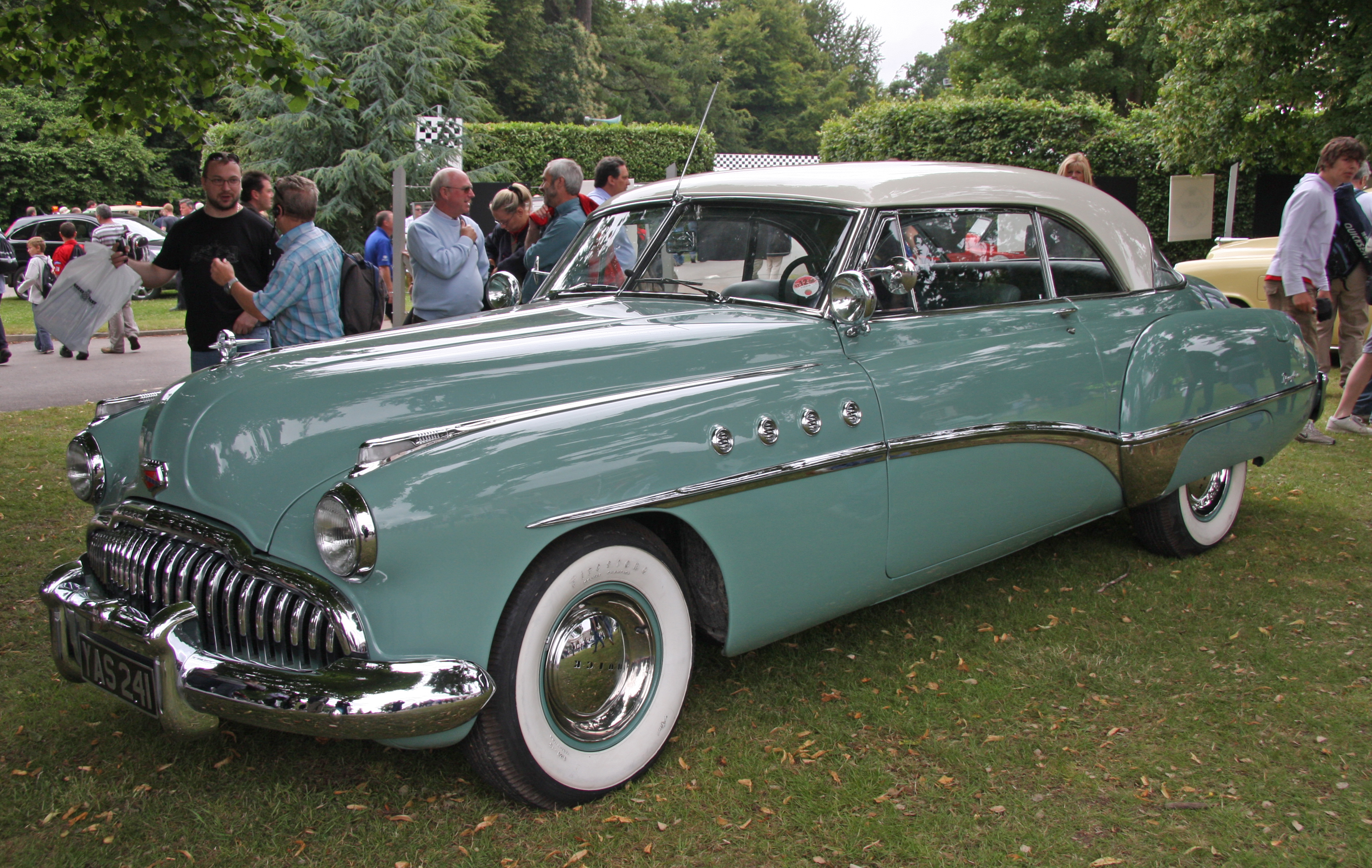 1949 Buick Roadmaster Riviera Coupé